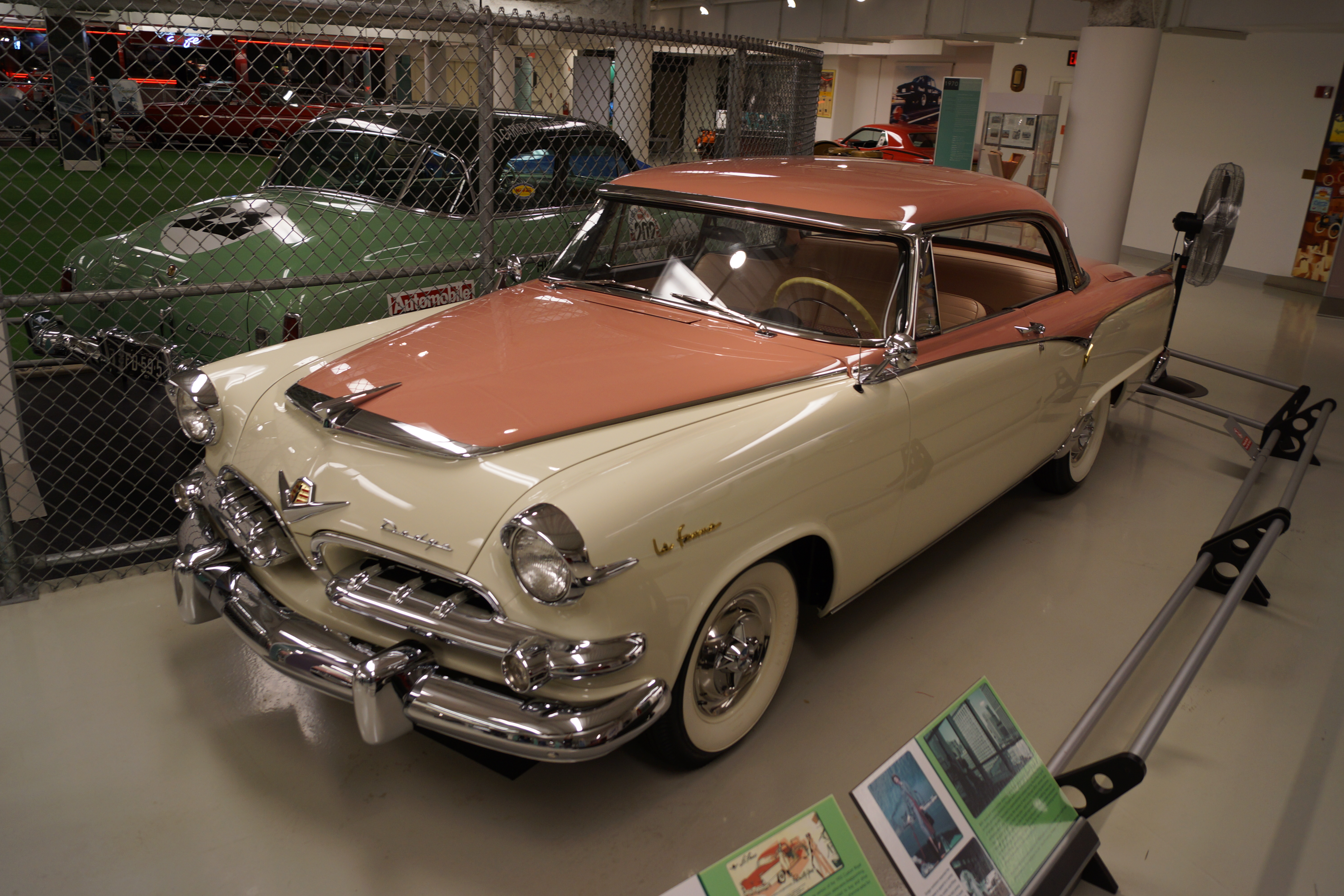 Click here for more car pictures at my Flickr site. Or here for my Car Crazy Tumblr site. Back on November 4th, Hemming's Blog posted an article about the closing of the Walter P. Chrysler Museum . I had missed a couple other opportunities with the WPC Club and others to get into the museum, after it had closed to the public. I did not want to regret missing this last chance to see all of the vehicles before being spread out to other facilities. I trekked from Western Minnesota to Eastern Michigan during Winter Storm Decima. I missed the worst parts of the storm, but still had to endure the aftermath winds, sub zero temperatures and a lake effect snow storm. The trip was difficult, but well worth it. I got to see several Chrysler Corporation concept and show cars that I had only seen pictures of before. There were several clever interactive displays demonstrating various innovations over the years. Since it was the last chance, I duplicated several shots using different camera settings to see what produced better results. I wish I had invested in a strobe light diffuser for all of those indoor pictures. I have not had much experience or success in the past with indoor car images.